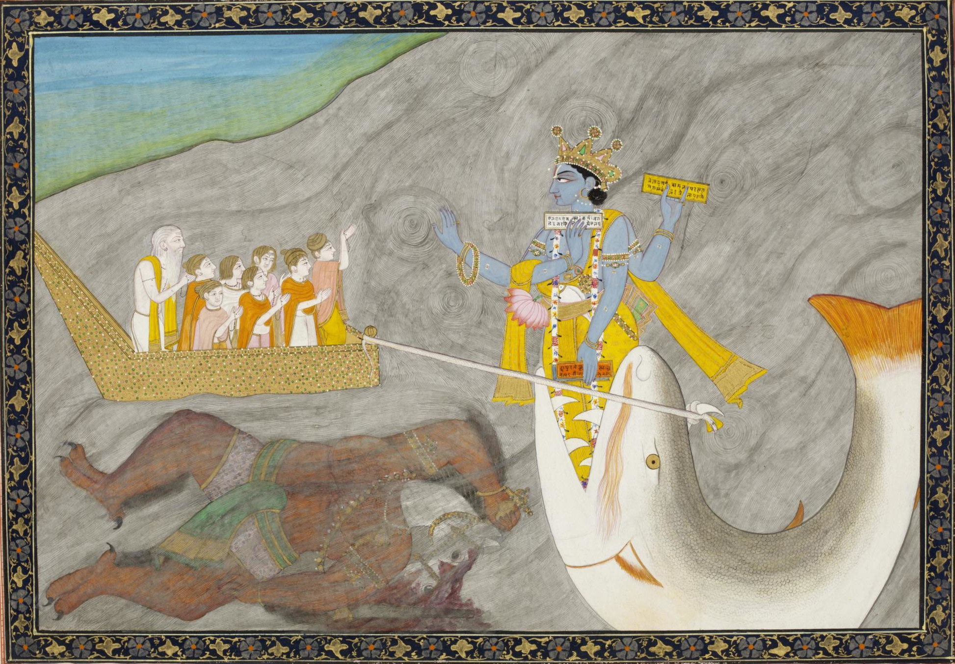 Matsya Avatar of Vishnu Uttar Pradesh, India.